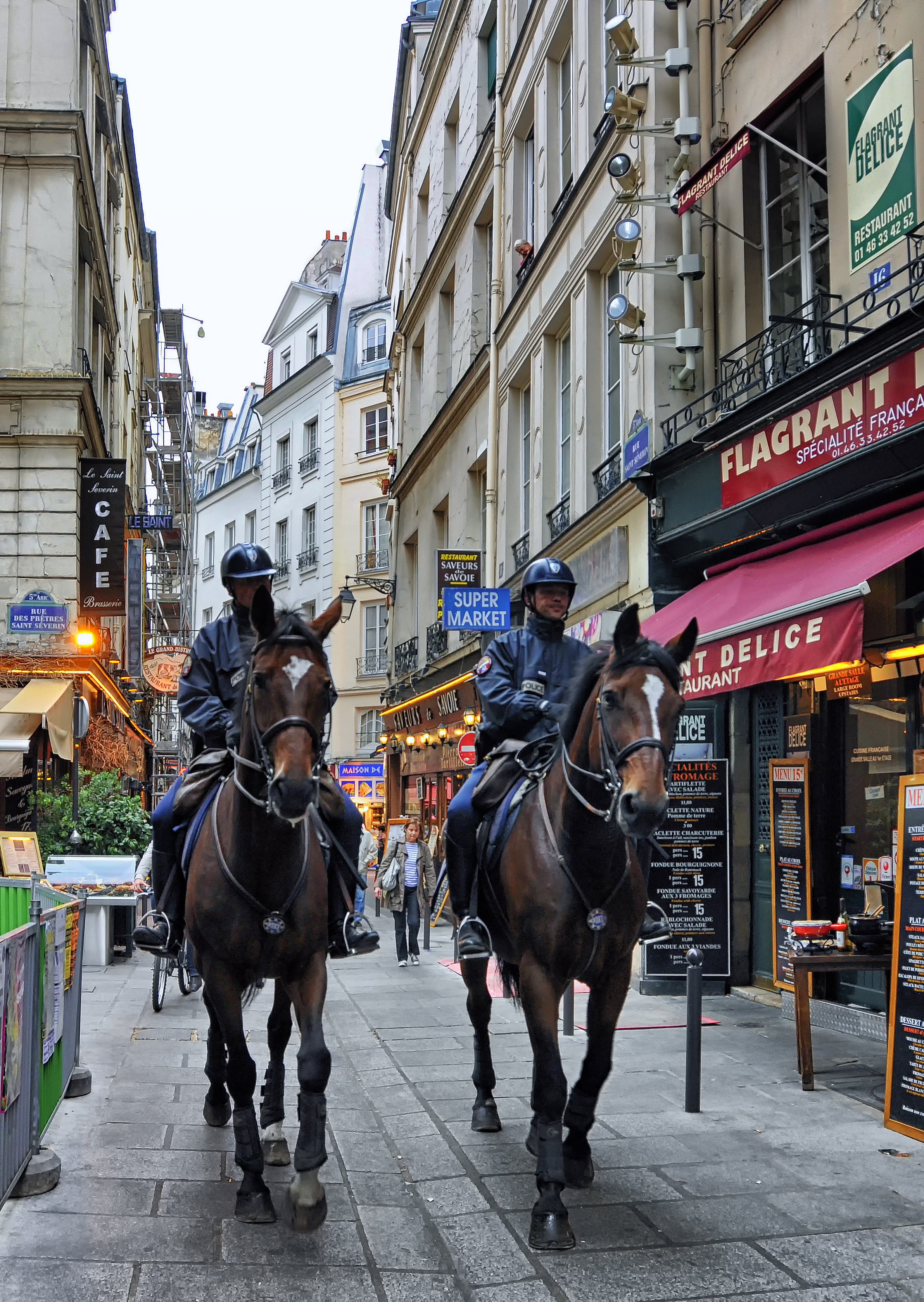 Mounted police in Paris.